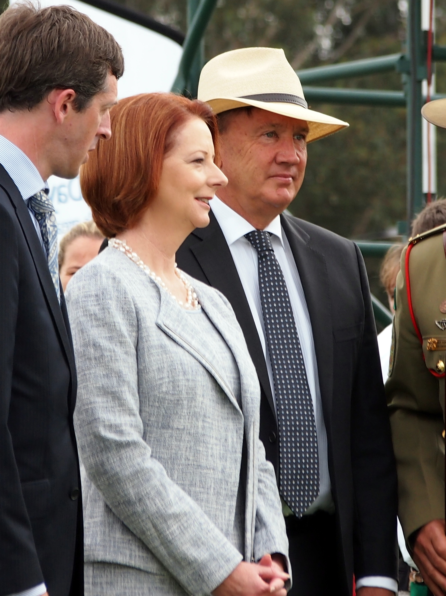 Julia Gillard and Tim Mathieson arriving at the National Flag Raising and Citizenship ceremony in Canberra